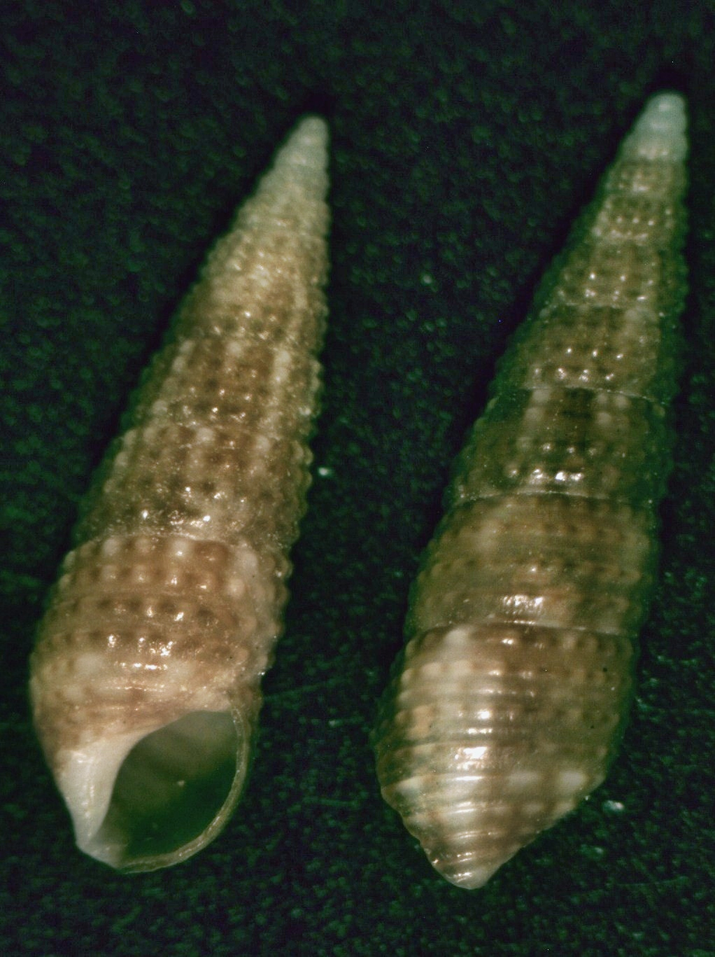 Cacozeliana granarium (Kiener, 1842), a sea snail from the family Cerithiidae; South Australia